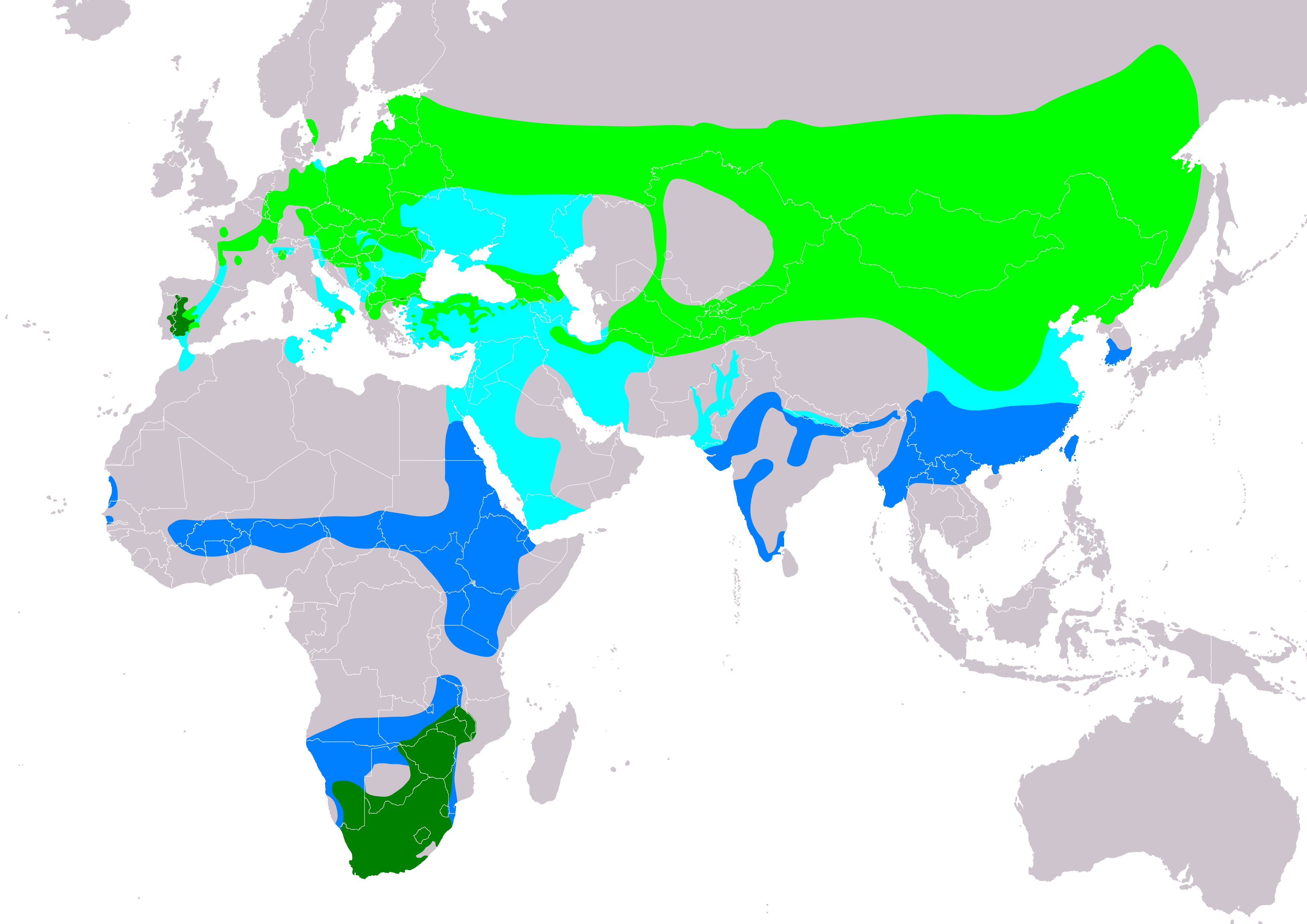 Distribution map of black stork (Ciconia nigra) according to IUCN version 2019-2 ; key: Legend: Extant, breeding (#00FF00), Extant, resident (#008000), Extant, passage (#00FFFF), Extant, non-breeding (#007FFF)